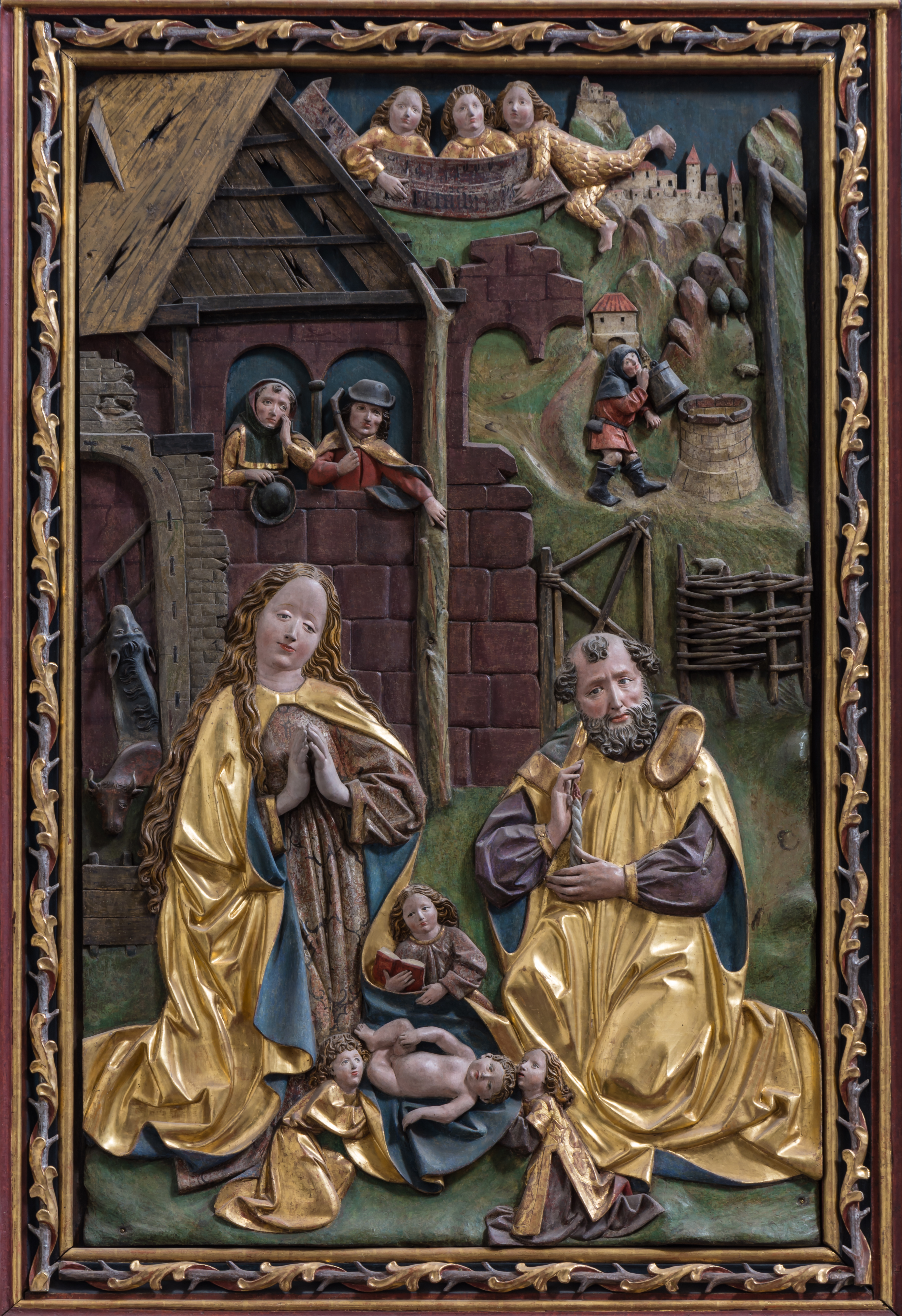 Nativity of Christ at the winged altar of the parish- and pilgrimage church Maria Laach am Jauerling, Lower Austria. Anonymous master, 1480.